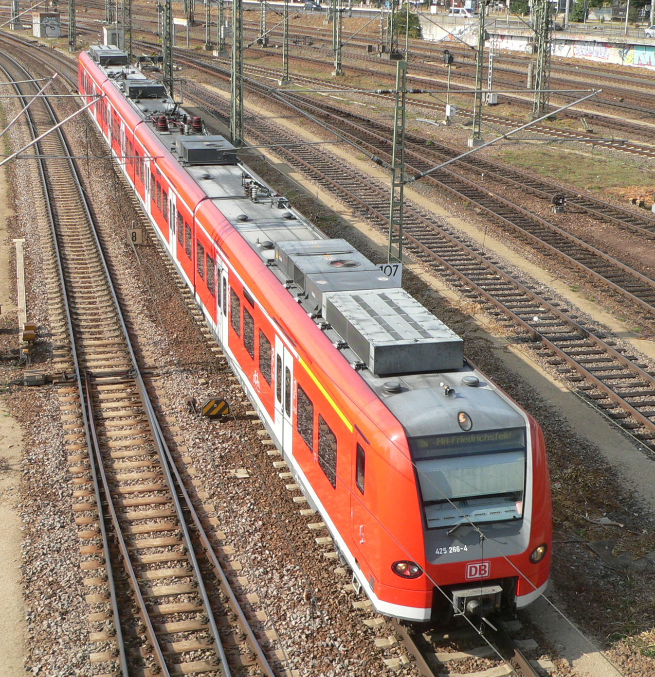 DB AG Class 425 in Mannheim, Germany